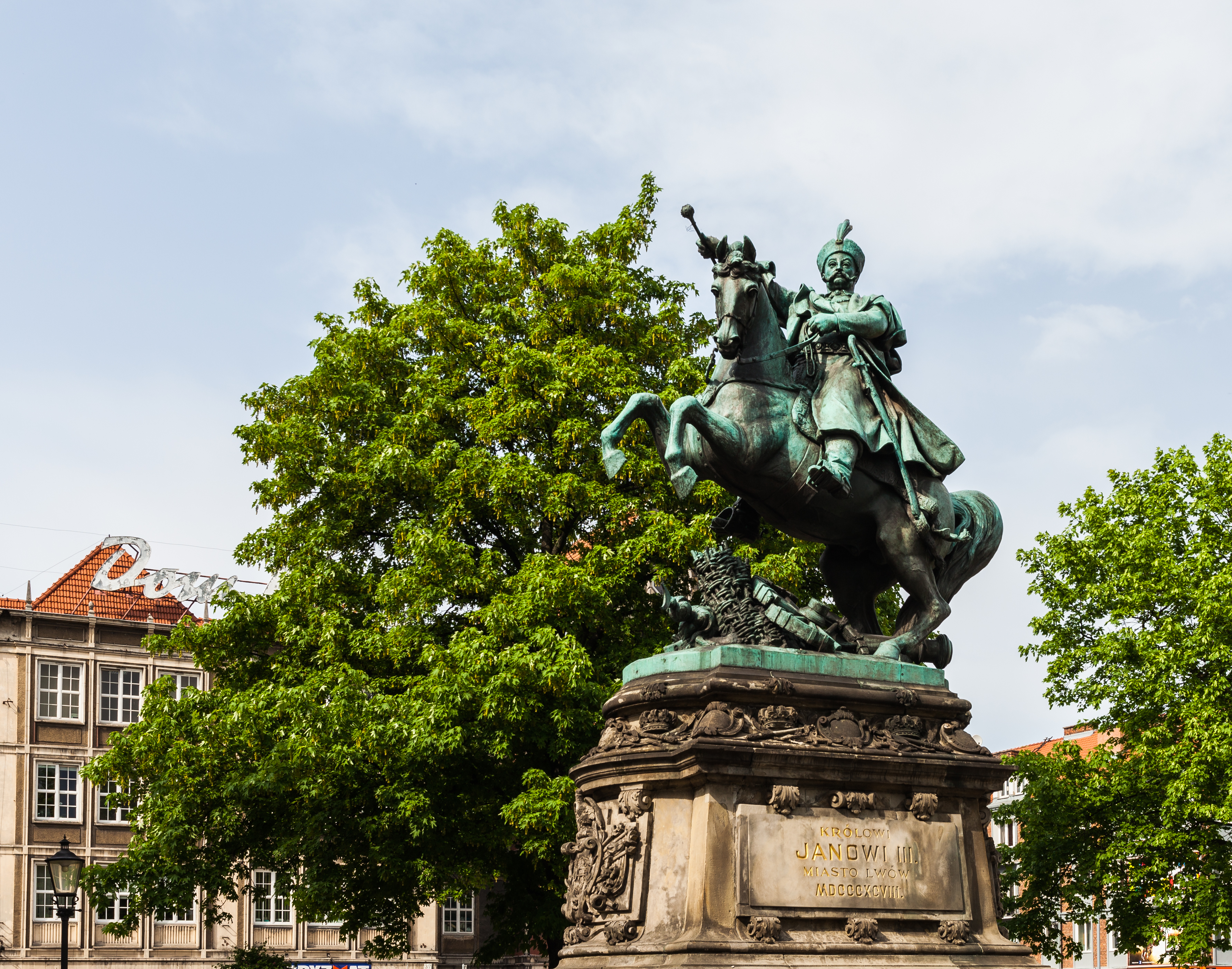 John III Sobieski, Gdansk, Poland